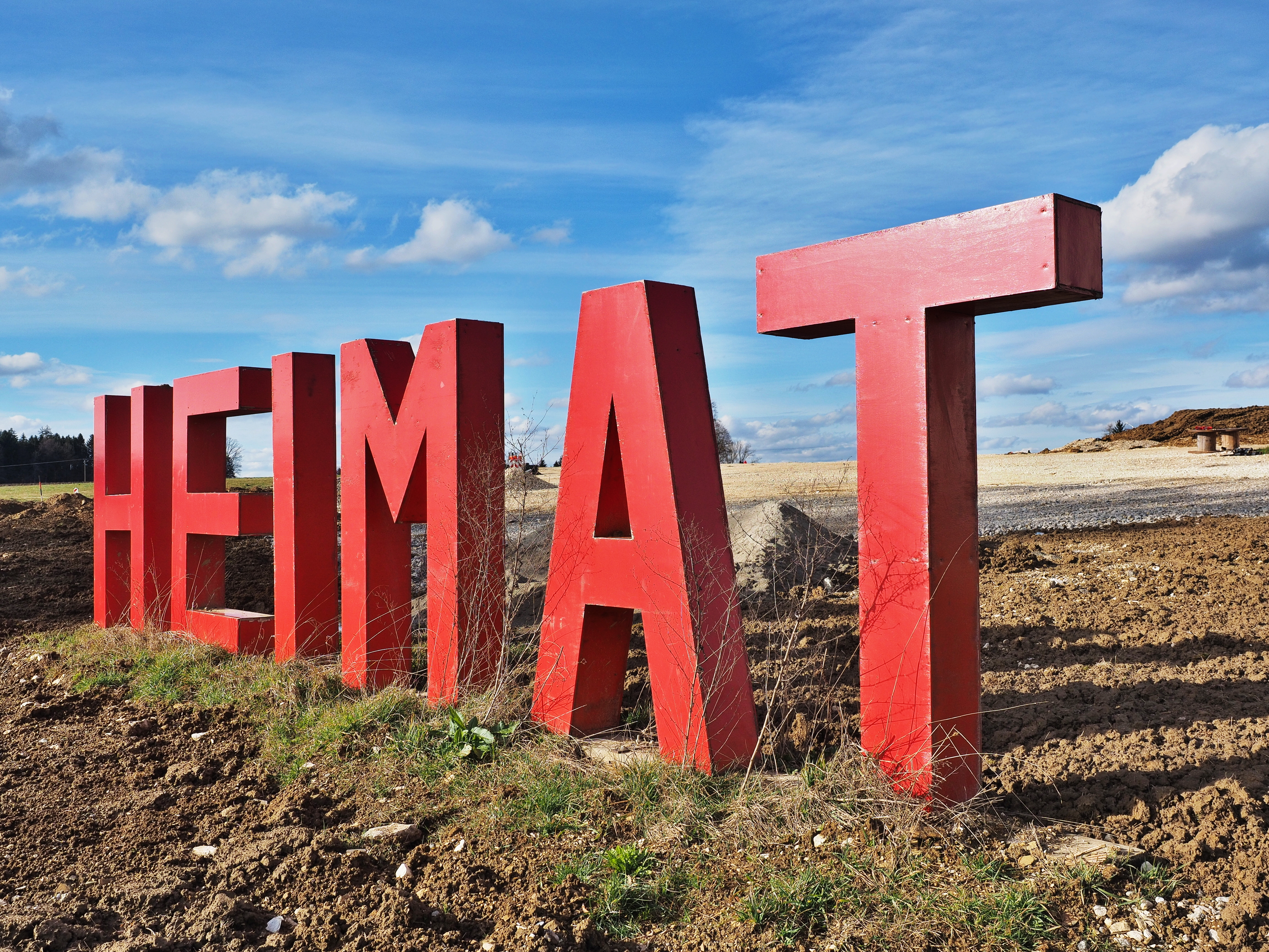 The German word "Heimat" ("Homeland") set in 6-feet-tall letters on a developing area